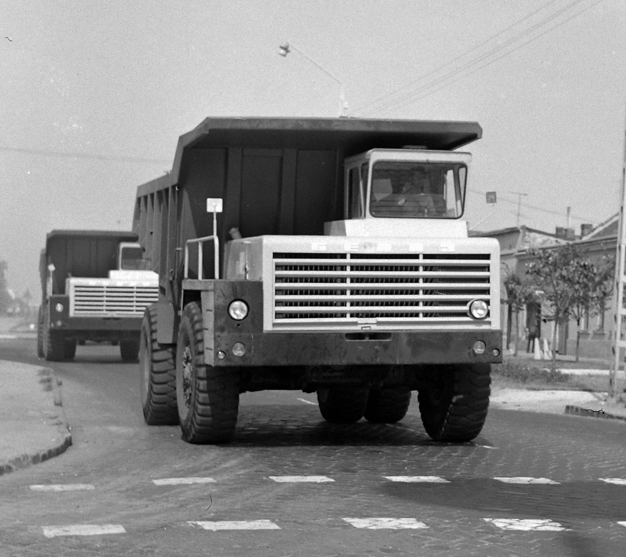 Location: Hungary Tags: BelAZ-brand, Soviet brand, commercial vehicle, street view, bus stop, tipper